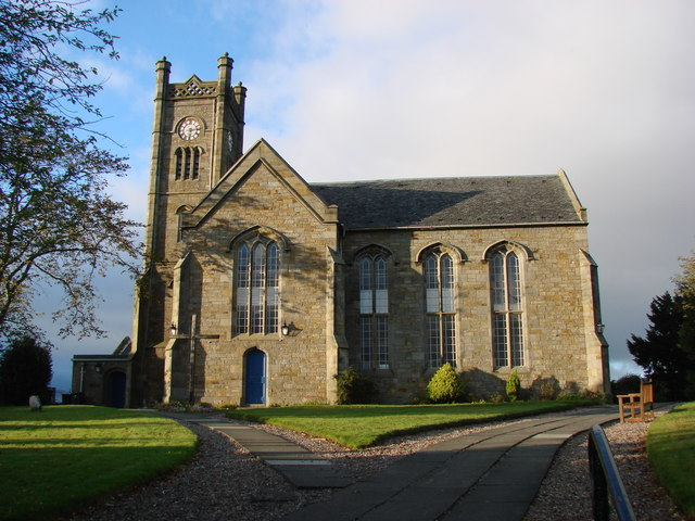 Church of Scotland, Kinross